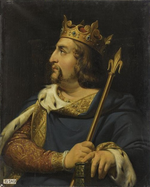 Portraits of Kings of France is a serie of portraits commissioned between 1837 and 1838 by Louis Philippe I and painted by various artists for the Musée historique de Versailles.